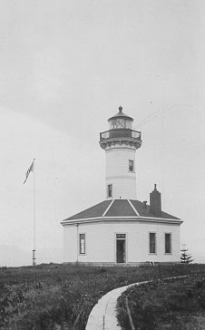 Public Domain statement here; The Mary Island Light Station is a lighthouse located on the northeastern part of Mary Island in southeastern Alaska, USA.